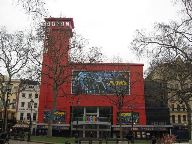 The Odeon, Leicester Square The Odeon was built in 1937 on the site of the Alhambra Theatre, a large music hall dating from the 1850s.